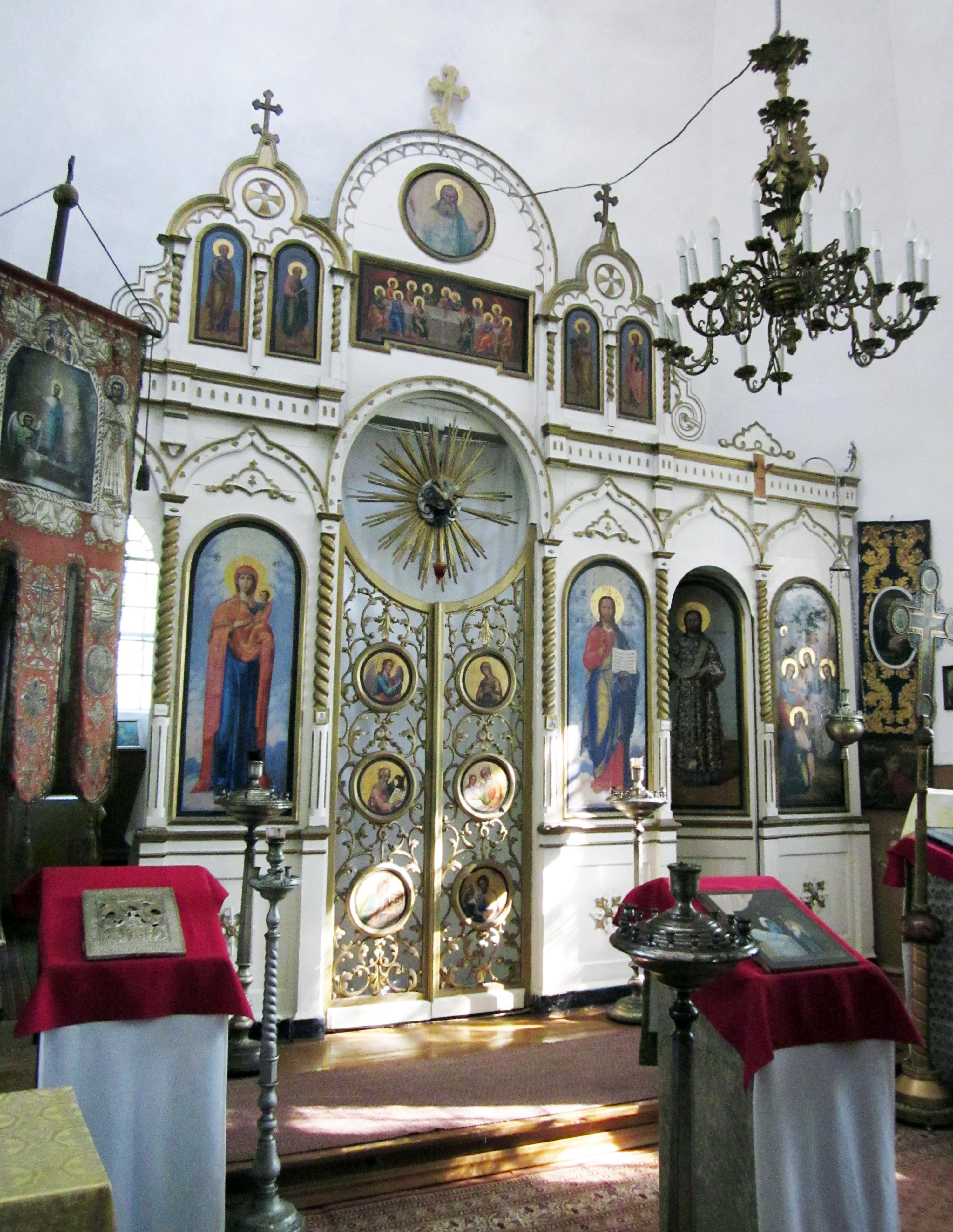 Royal doors at the iconostasis of Trinity church in Nõo depicting Annunciation in two medaillons and four Evangelists below